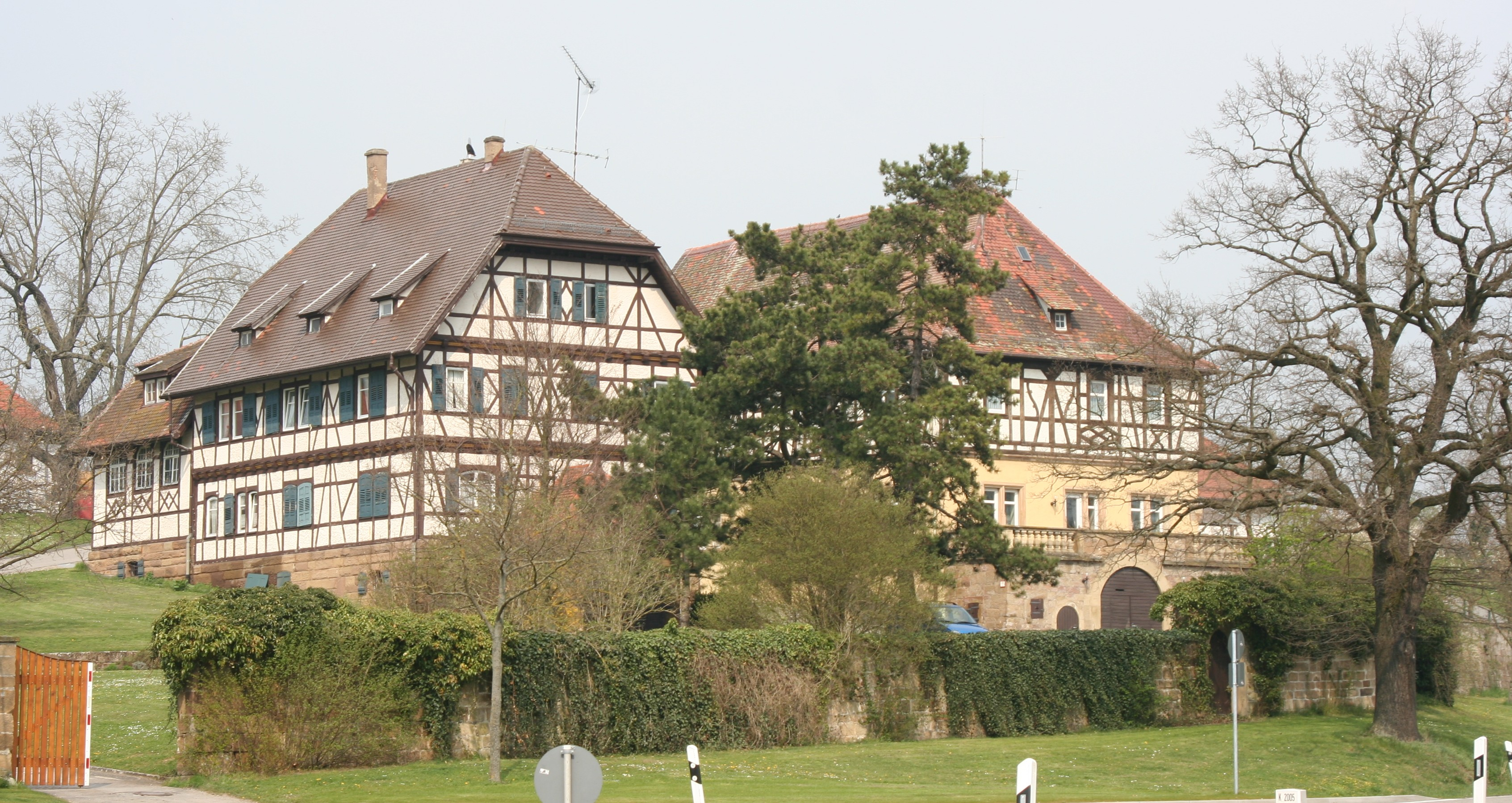 The Weißenhof in Weinsberg. Former small castle form the South-West